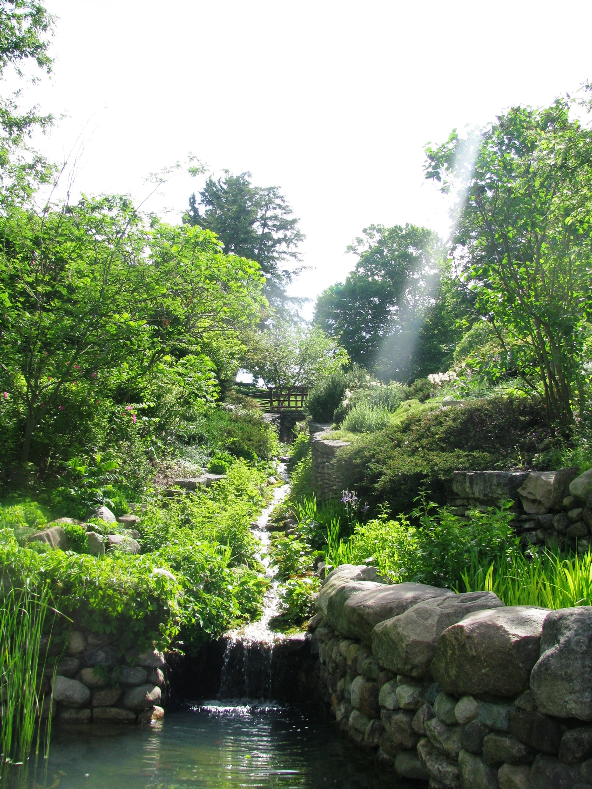 View of the garden ravine on the grounds of Oldfields, Lilly House, Indianapolis Museum of Art, located in Indianapolis, Indiana. Facing east.